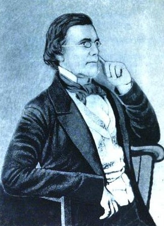 Illustration depicting Alexander Beaufort Meek, author from Alabama and state Attorney General. From The Library of Southern Literature: Biography, edited by Edwin Anderson Alderman and Joel Chandler Harris. Published by The Martin & Hoyt Company, 1909.